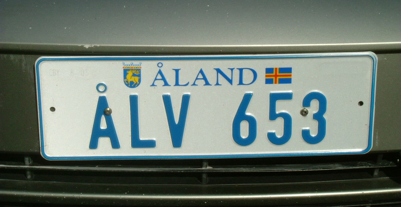 Alands Islands License Plate